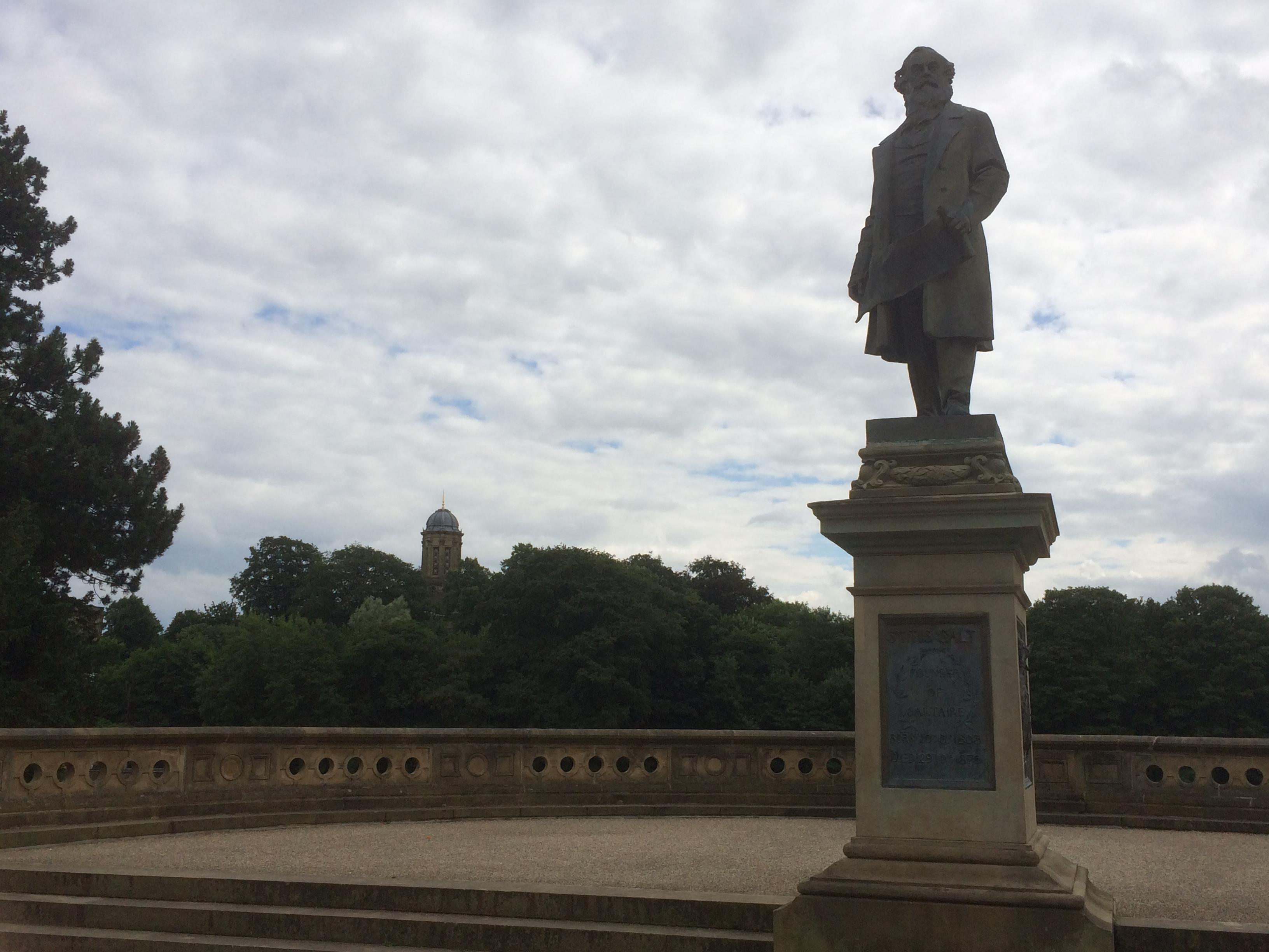 SALTAIRE MILLS Wikidata has entry Q17535067 with data related to this building.